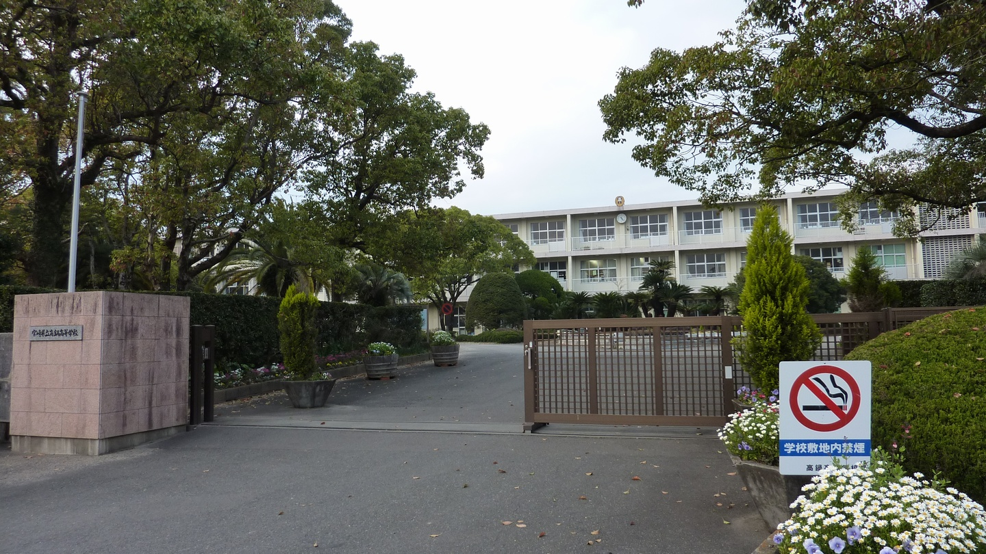 Miyazaki Prefectural Takanabe High School Entrance